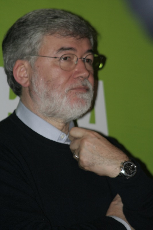 Sergio Cofferati, Italian trade unionist and politician